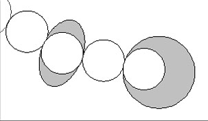 A cartoon showing a polymer (represented by the white circles) and the free volume associated with its different parts. Polymer ends have more free volume than units within the chain.